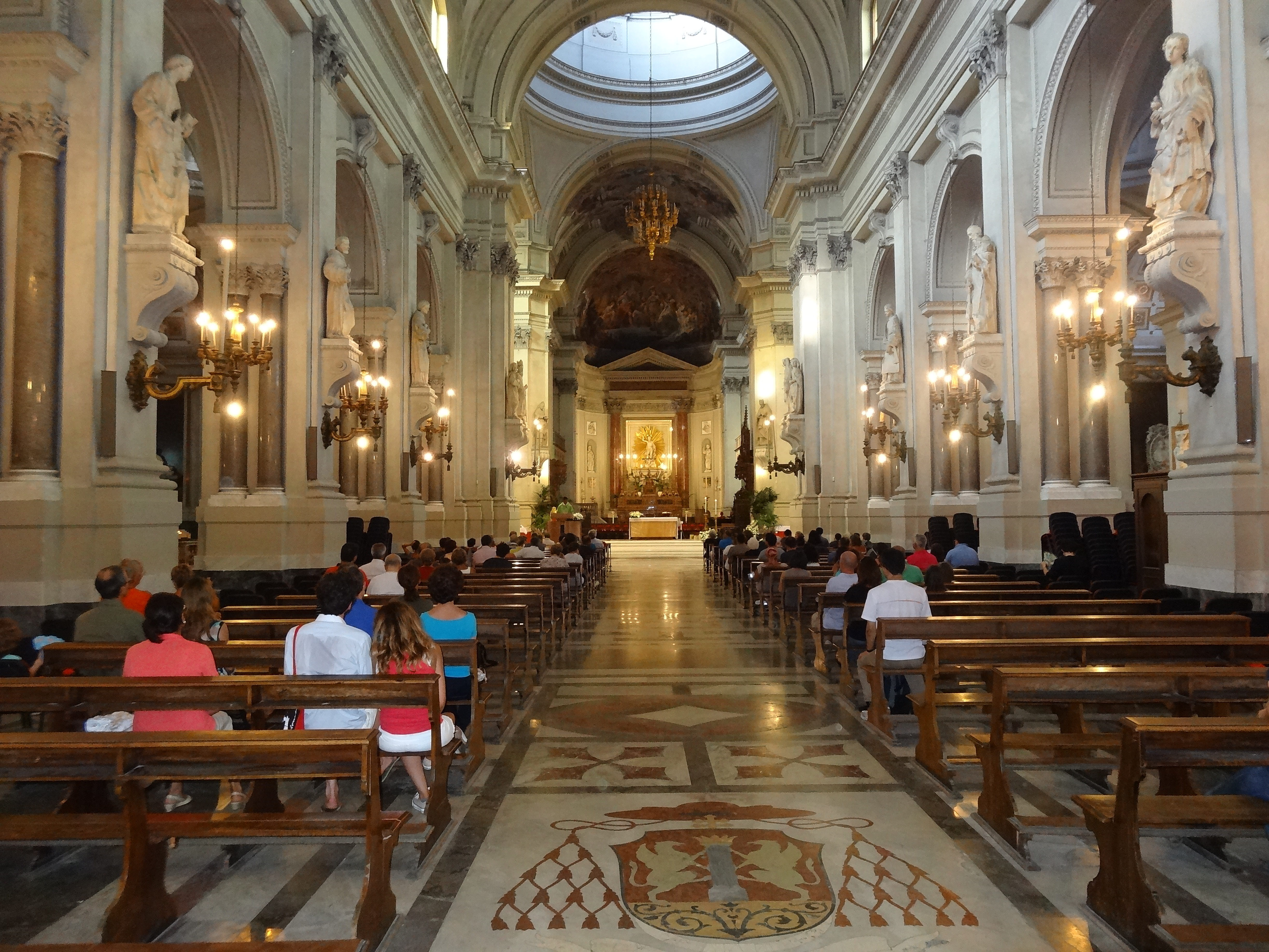 Cathedral of Palermo